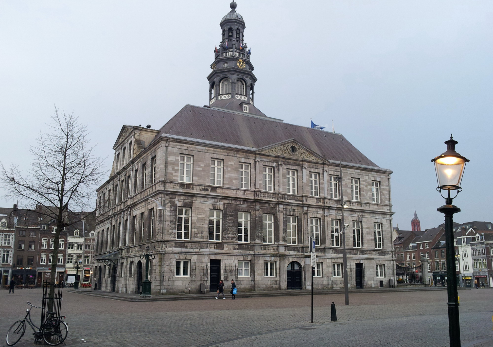 Maastricht, the Netherlands. View of the North facade of the town hall on Markt.